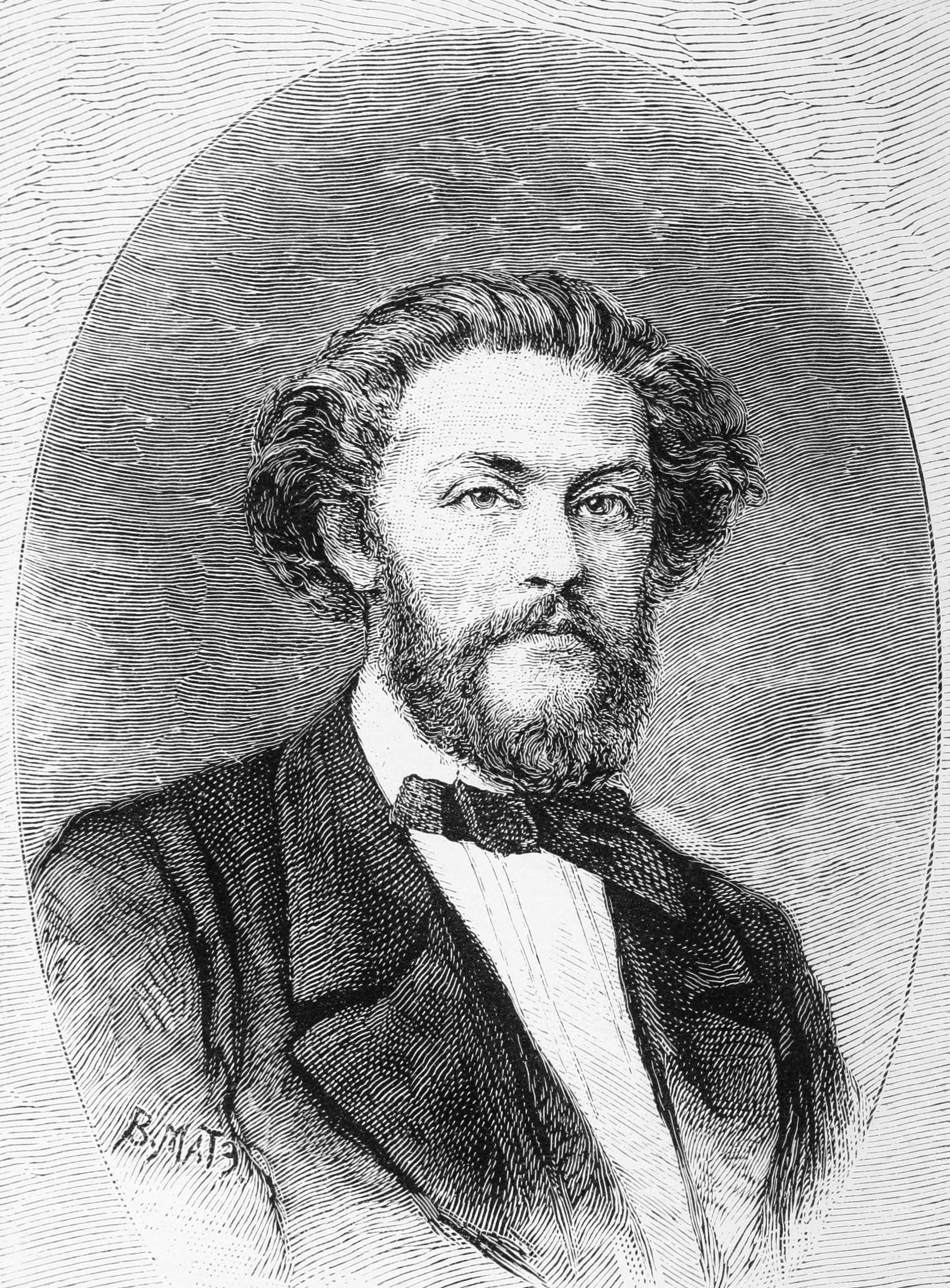 Nikolay Gerasimovich Pomyalovsky